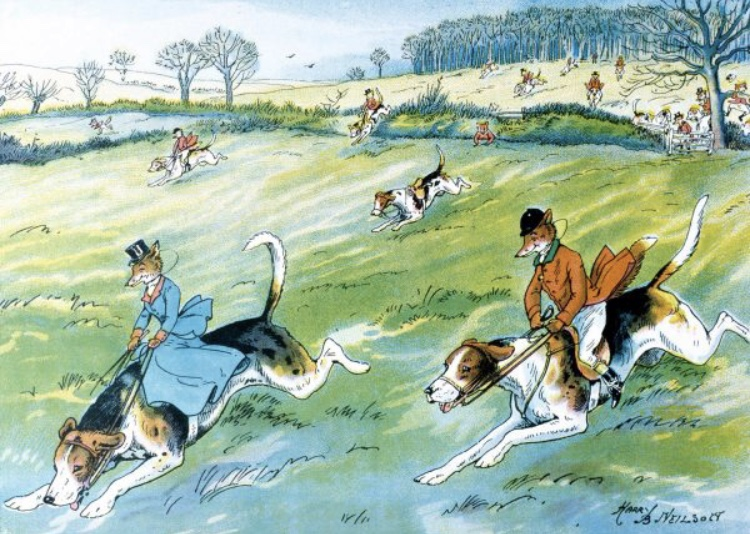 Illustration from book “The Fox’s Frolic” (1917)